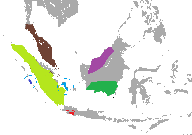 Distribution, Tupaia glis species complex, brown - Tupaia glis, light green - T. ferruginea, dark blue - T. chrysogaster, light blue - T. discolor, red - T. "glis" hypochrysa, dark green - T. salatana, violet - T. longipes